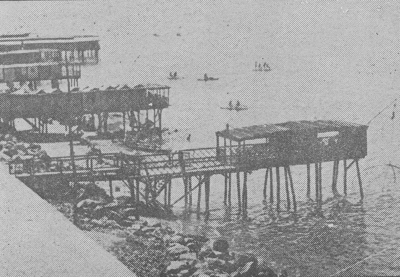 Seaside resorts in Marina di Pisa, Tuscany, Italy. The beach erosion forced pile-dwelling construction.